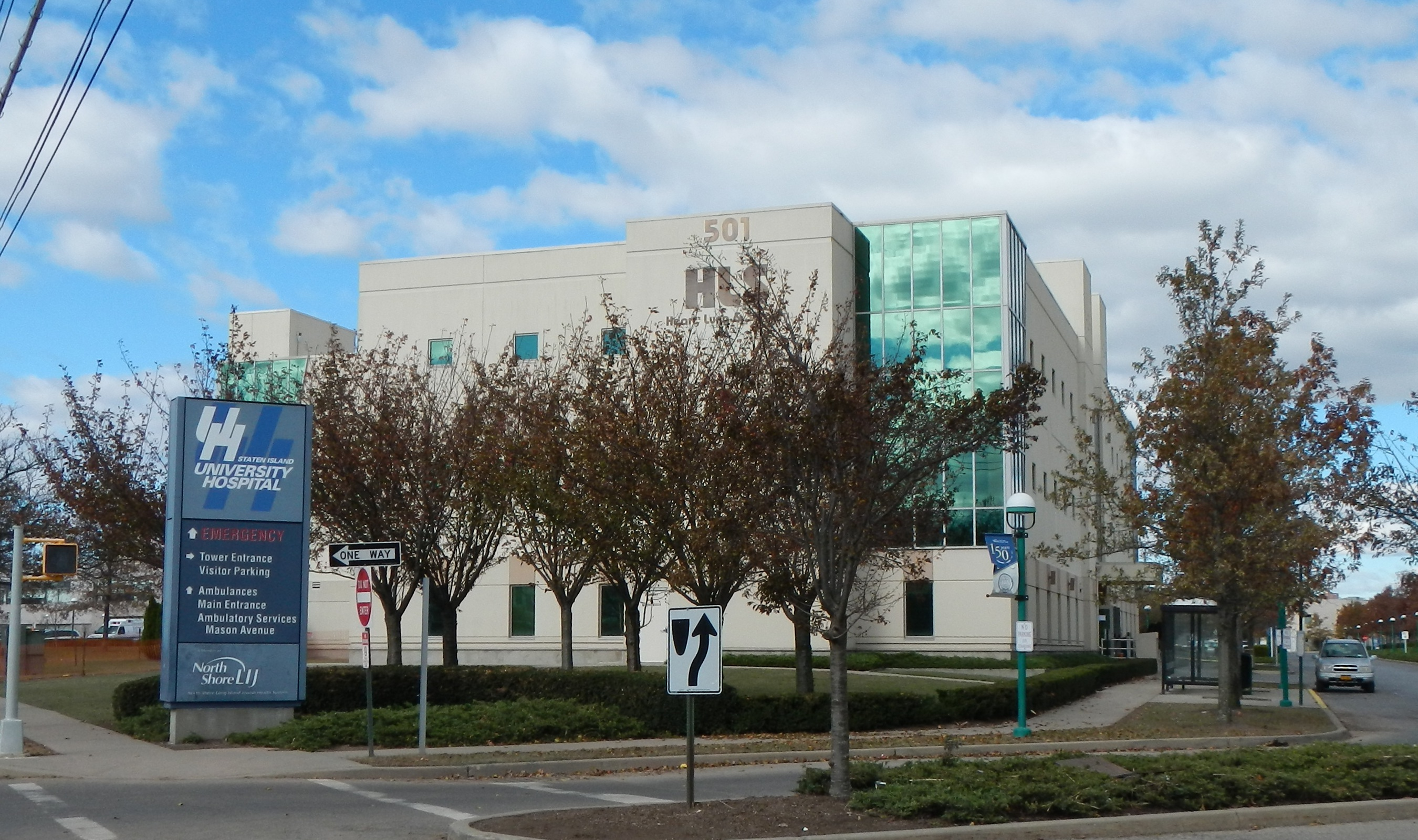 Looking north at Heart Lung Surgery building.